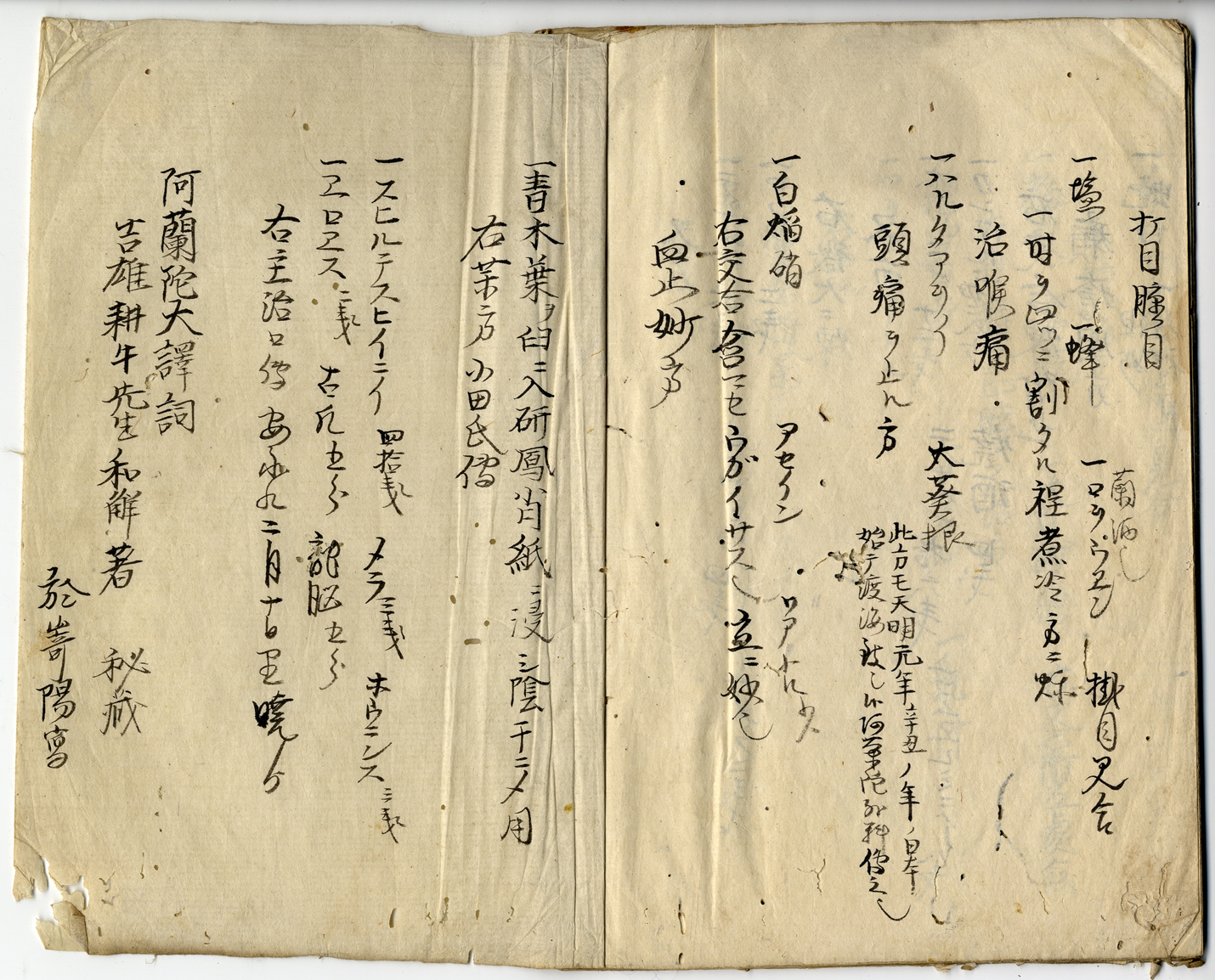 Last page of a medical manuscript-copy entitled Yoshio geka-kikigaki (吉雄 外科聞書) containing Western prescriptions. Final explanation: 'translated into Japanese and written by the Senior Translator, teacher Yoshio Kōgyū. Copied in Nagasaki. To be kept secret.'